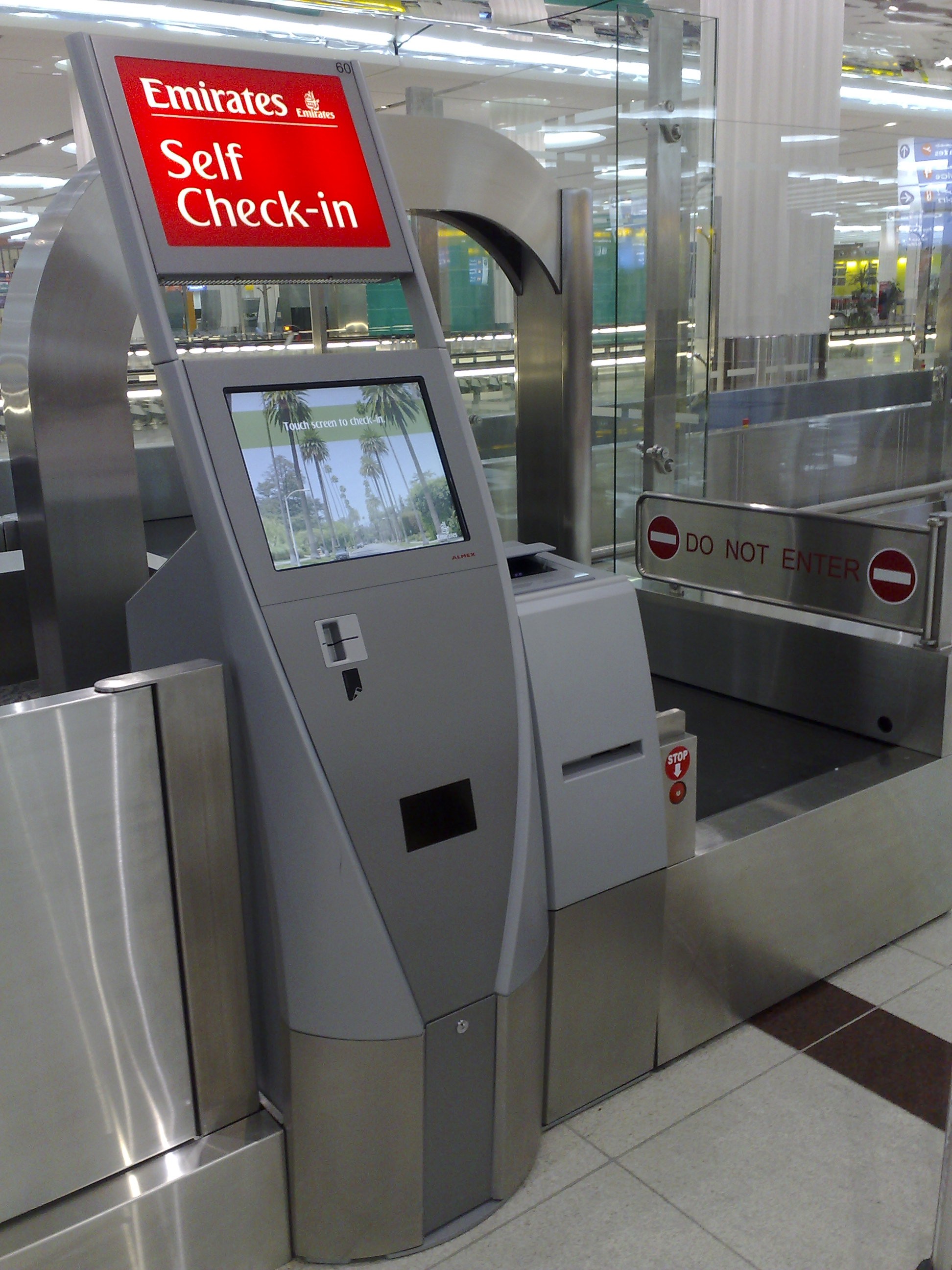 Emirates self-check in at Dubai International Airport